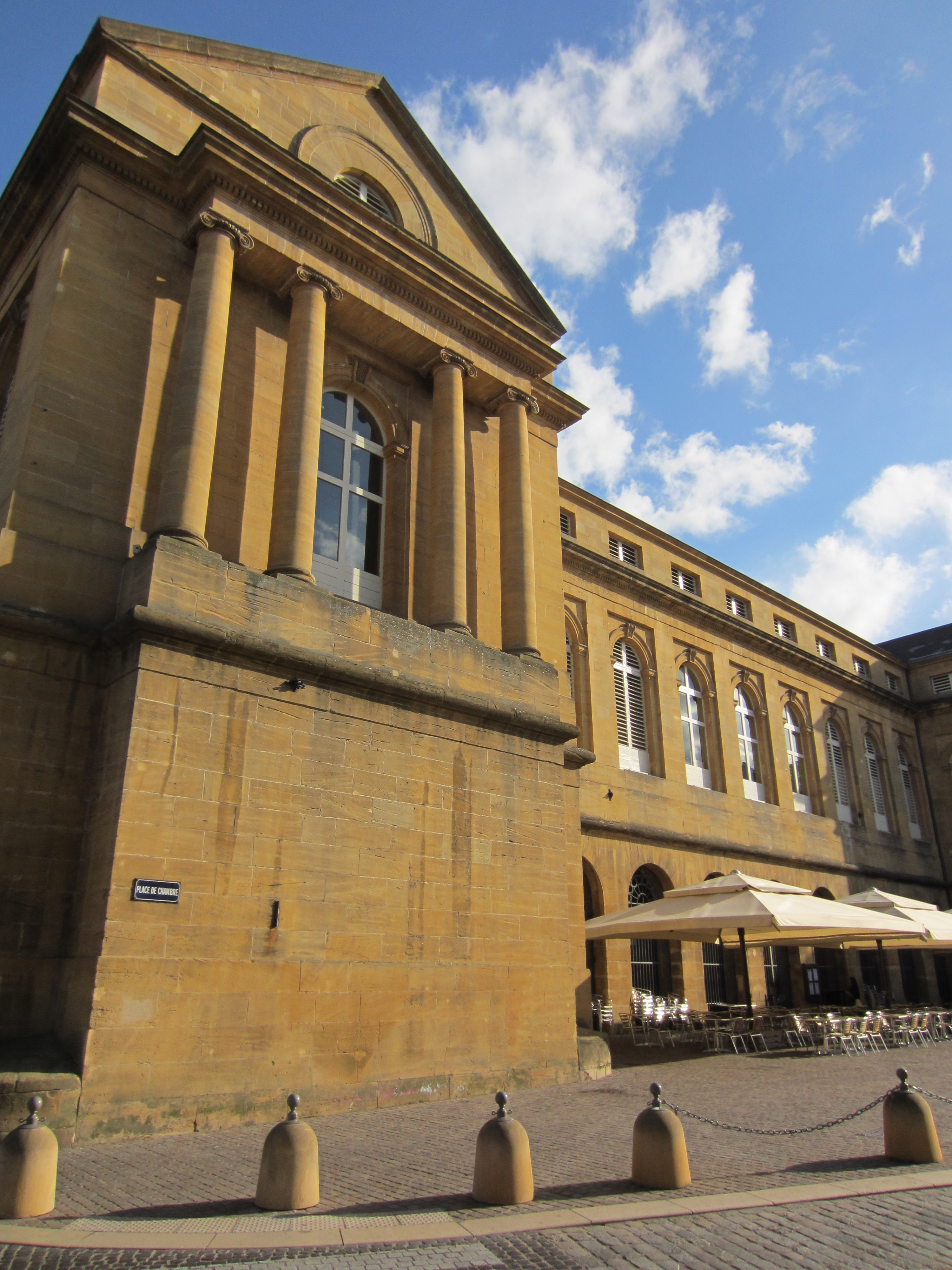 Description palais épiscopal Metz Date23 November 2011Sourcemon appareil photoAuthorAimelaimePermission (Reusing this file) palais épiscopal Metz